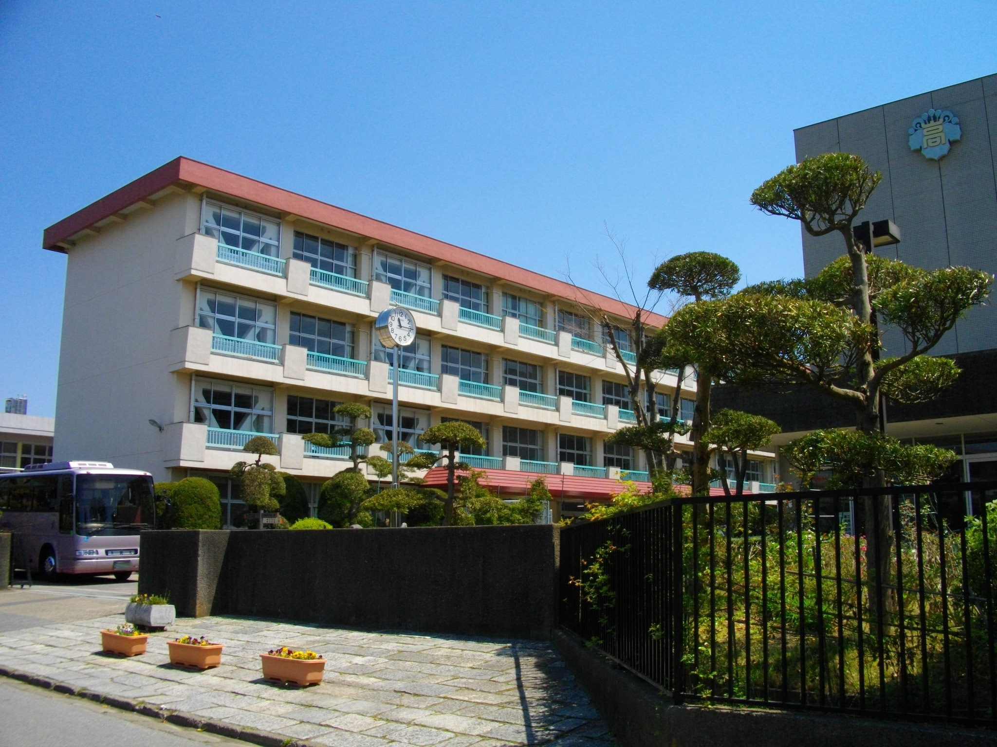 Abiko High School